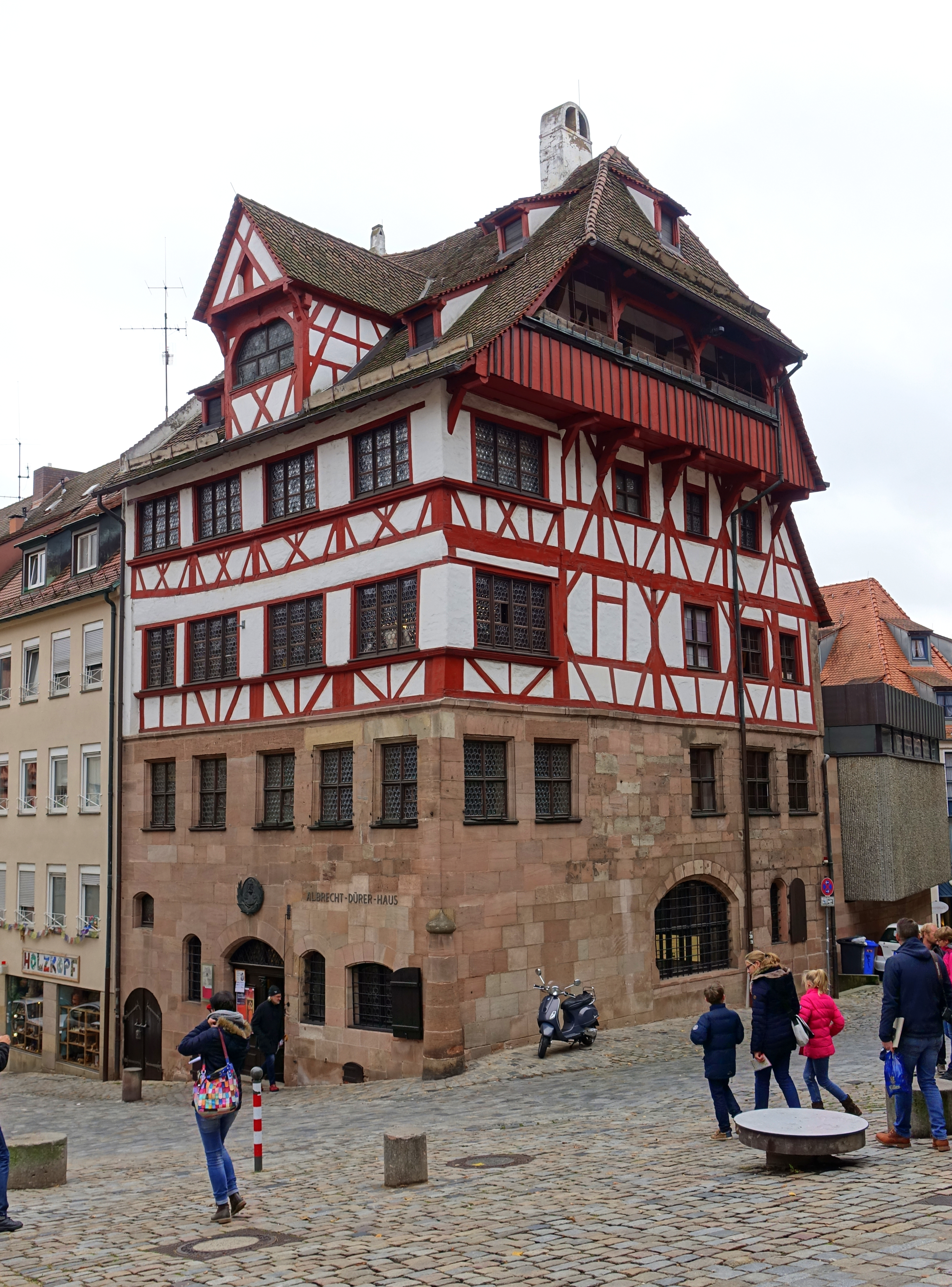 Albrecht-Dürer-Haus - Tiergärtnerplatz - Nuremberg, Germany.